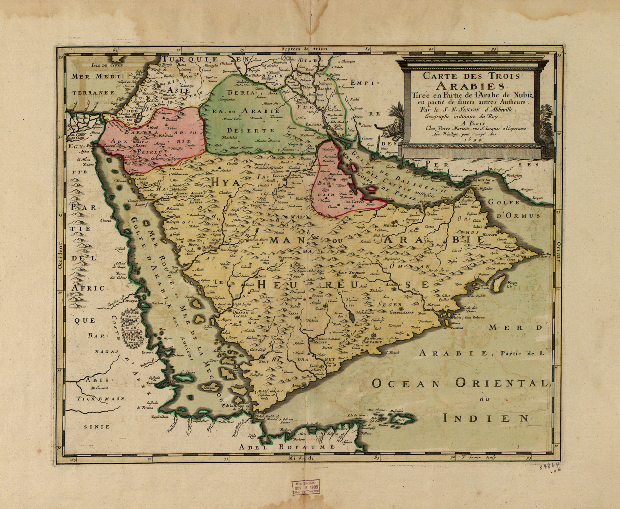 A Map of the Three Arabias (Carte des Trois Arabies), a French map of Arabia based on Ptolemy and Muhammad al-Idrisi.